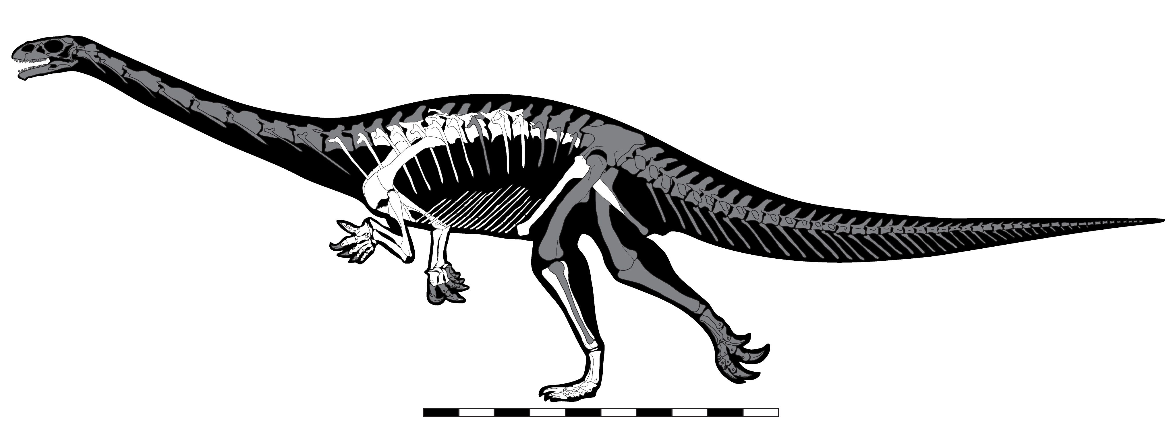 Skeletal reconstruction of Seitaad ruessi.